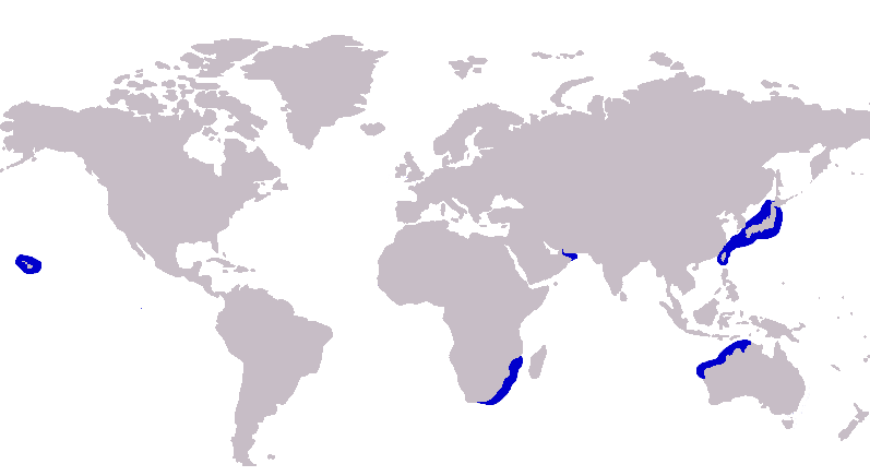 Distribution of whitefin trevally, Carangoides equula using map based on GDFL image